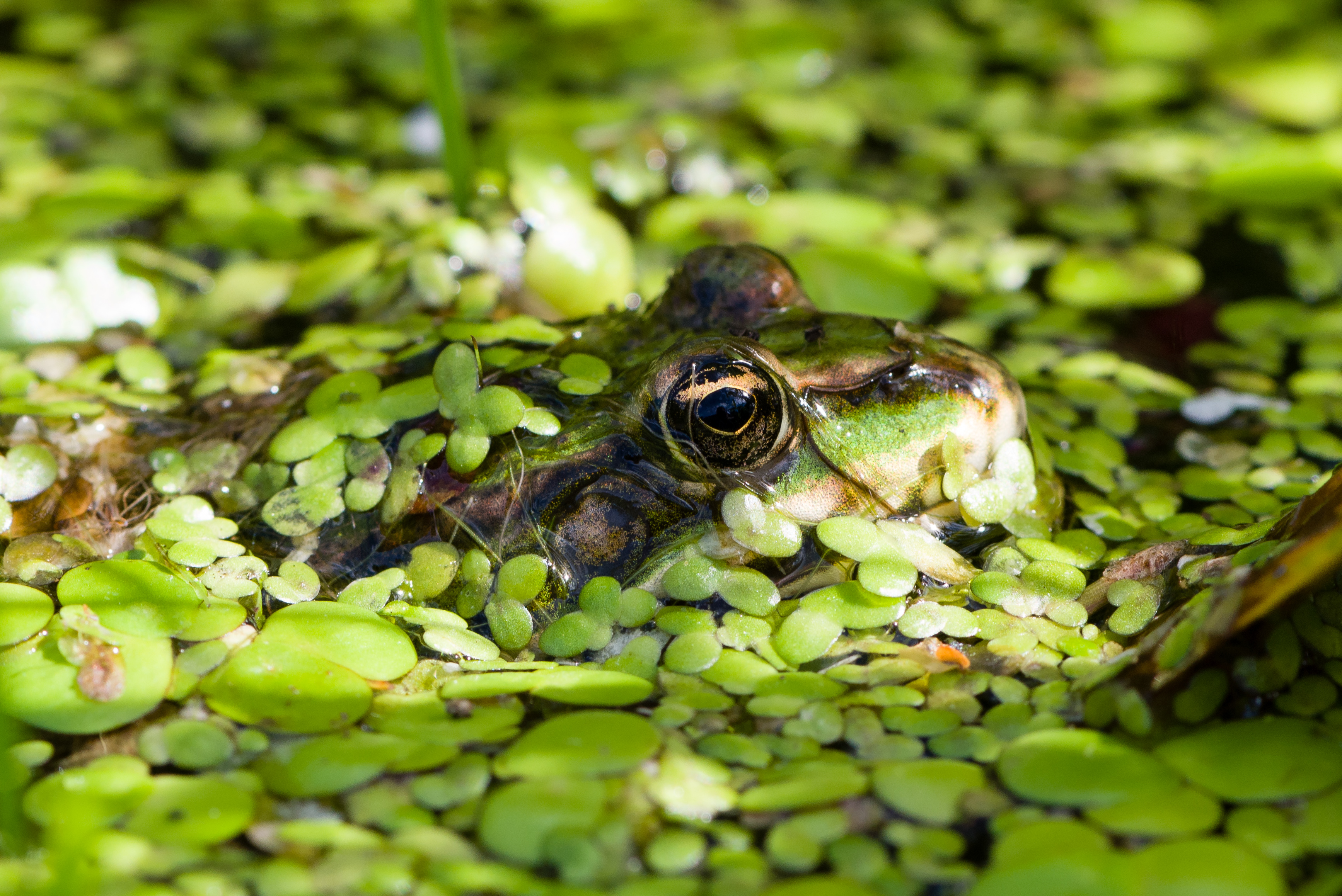 Pool frog Pelophylax esculentus with surronding Lemnoideae, more precicely: Lemna minor and Spirodela polyrhiza